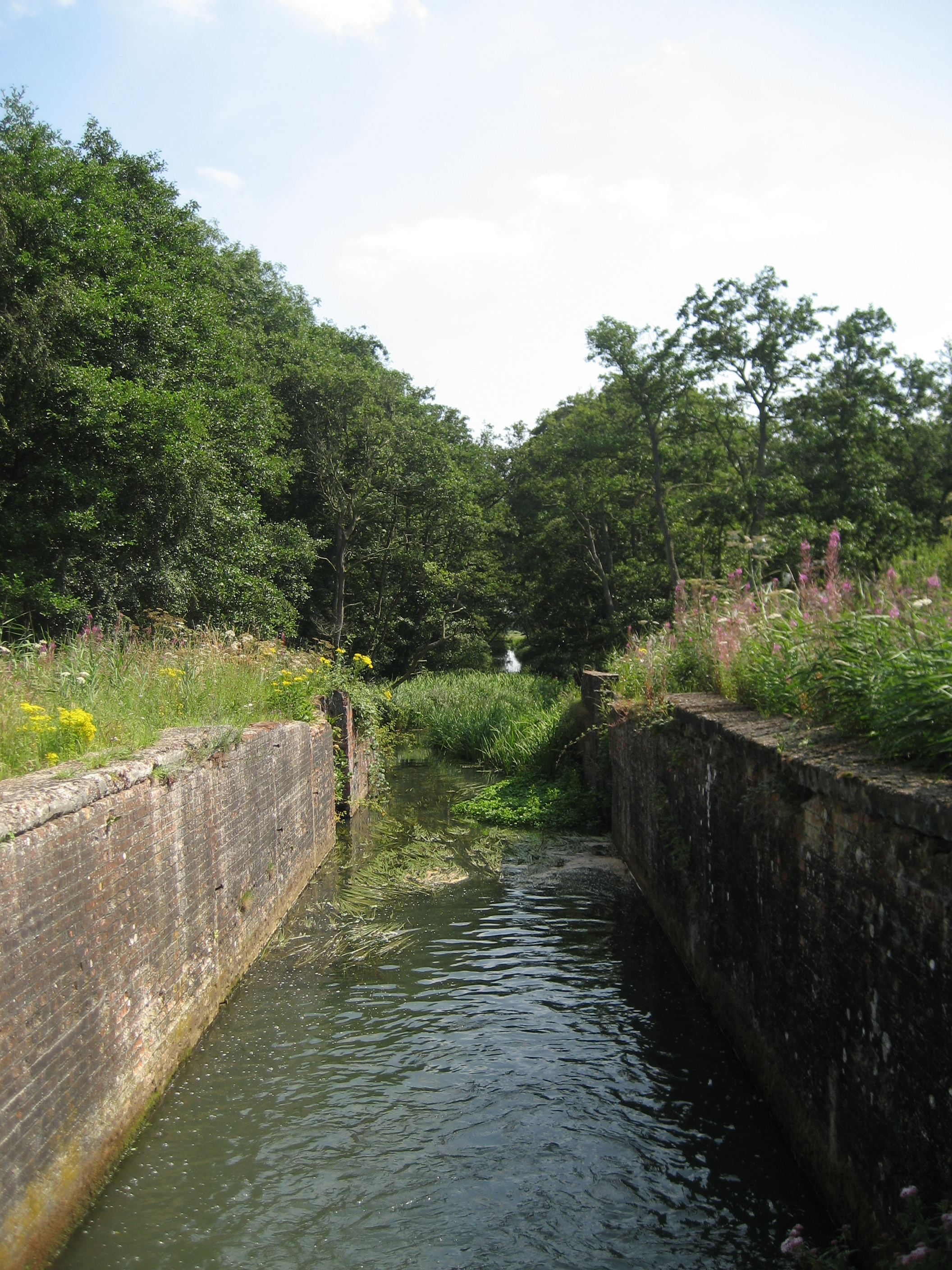 The disused canal lock at Honing, Norfolk, UK